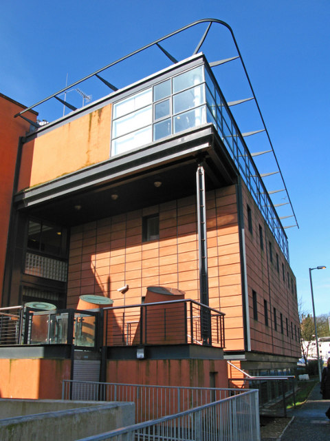 SNBTS, Gartnavel Hospital The Scottish National Blood Transfusion Services Glasgow centre. The west of Scotlands blood is tested and processed here.